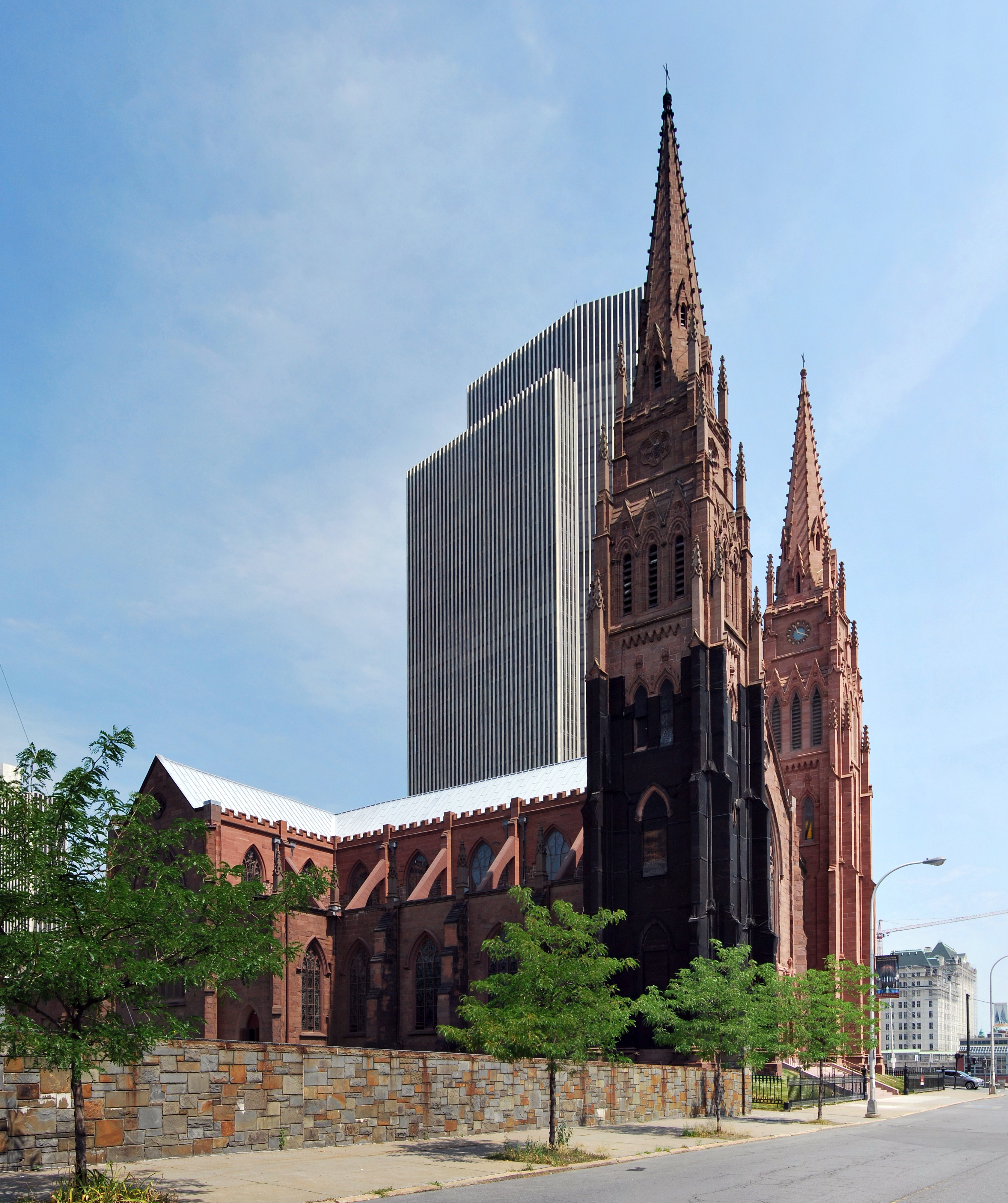 Cathedral of the Immaculate Conception in Albany, New York